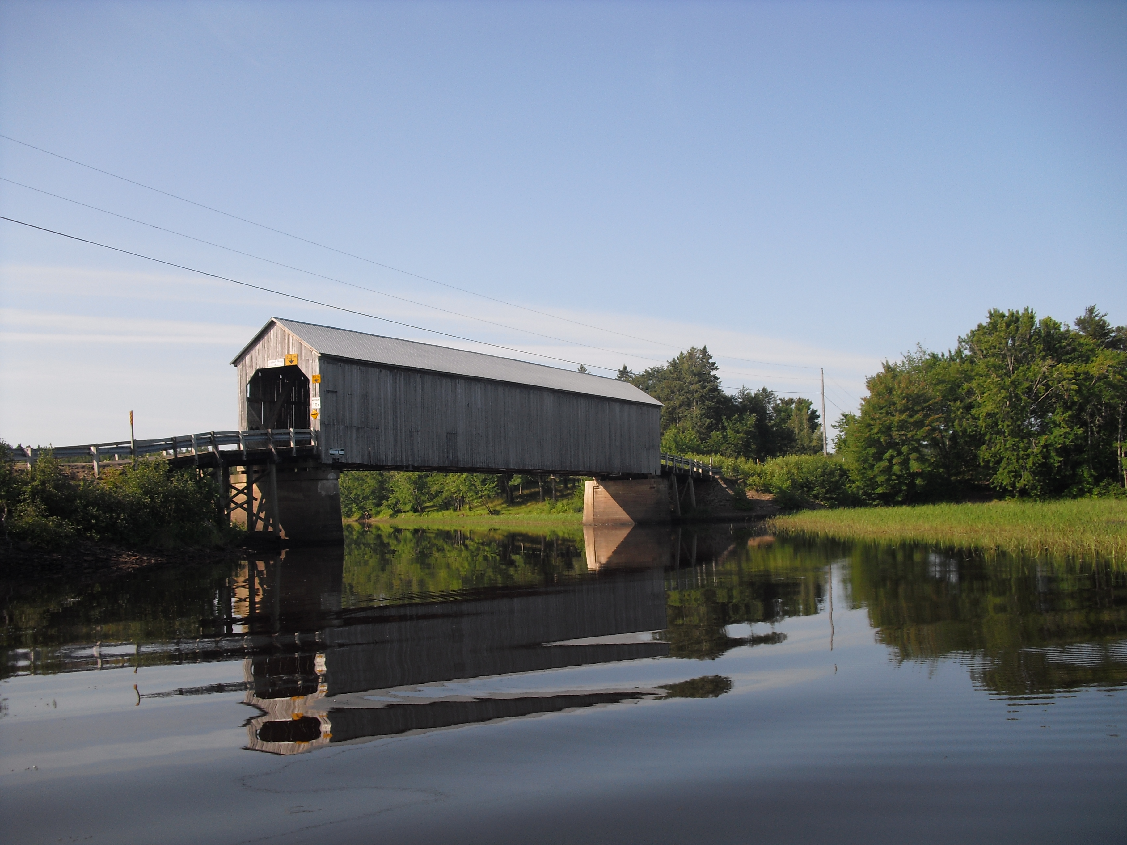 When ever I see a covered bridge I have to take a picture. Took this while fishing the Canaan River.